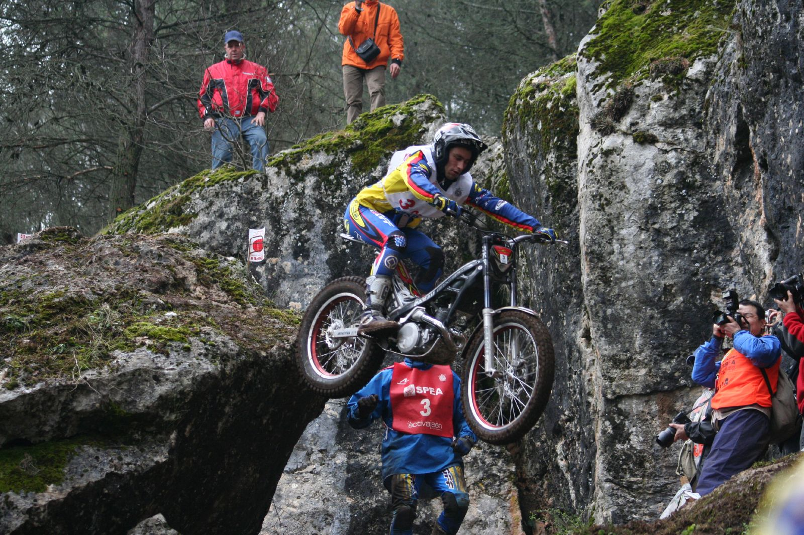 Albert Cabestany riding his Sherco at GP of Spaint (Trial World Championship) on april 1, 2007. He finished 5th.